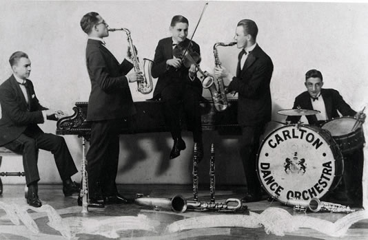 A picture of my grandfather Ben Davis' Carlton Dance Orchestra from our family album.